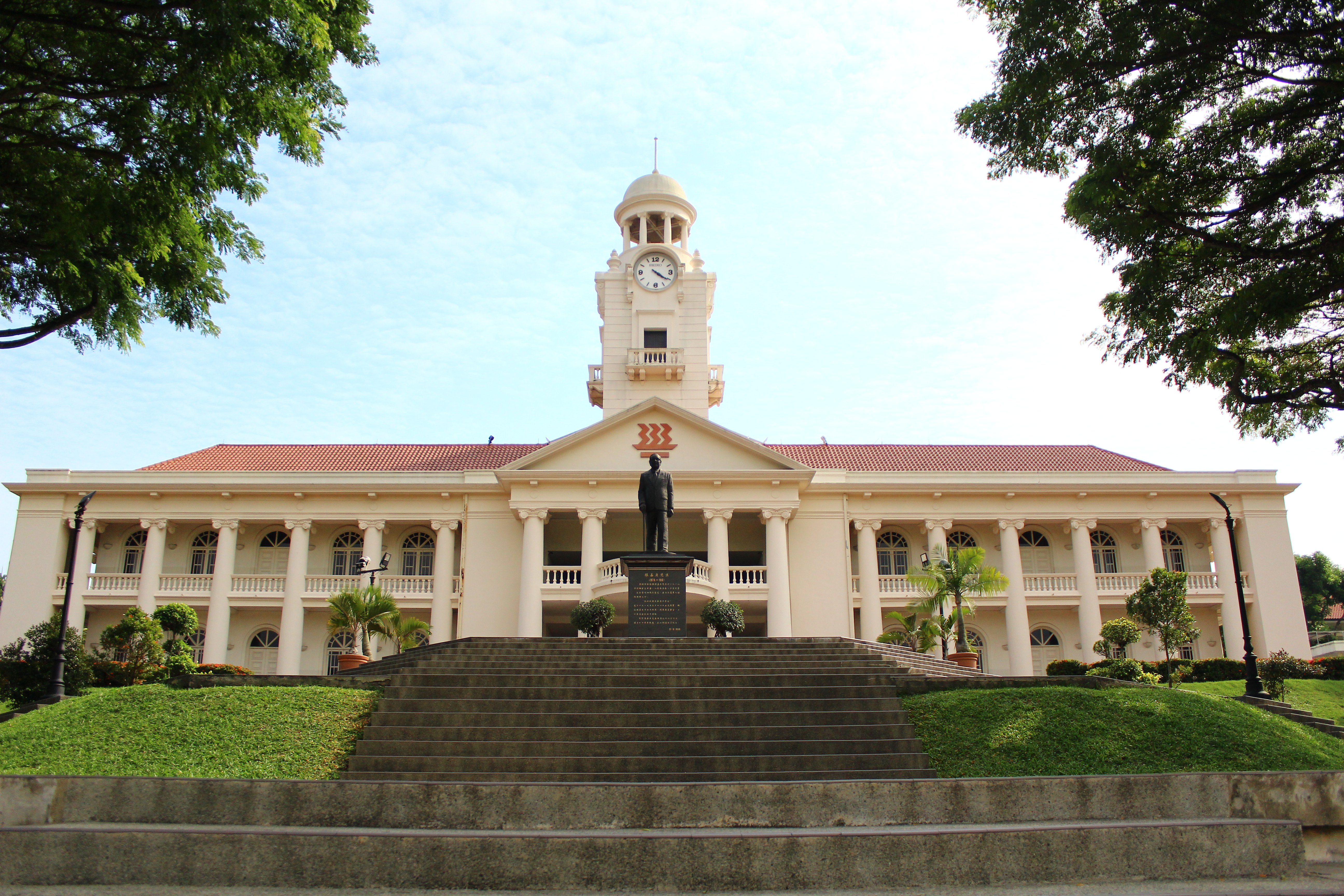 A front view of The Chinese High School Clock Tower Building, which is now part of Hwa Chong Institution.